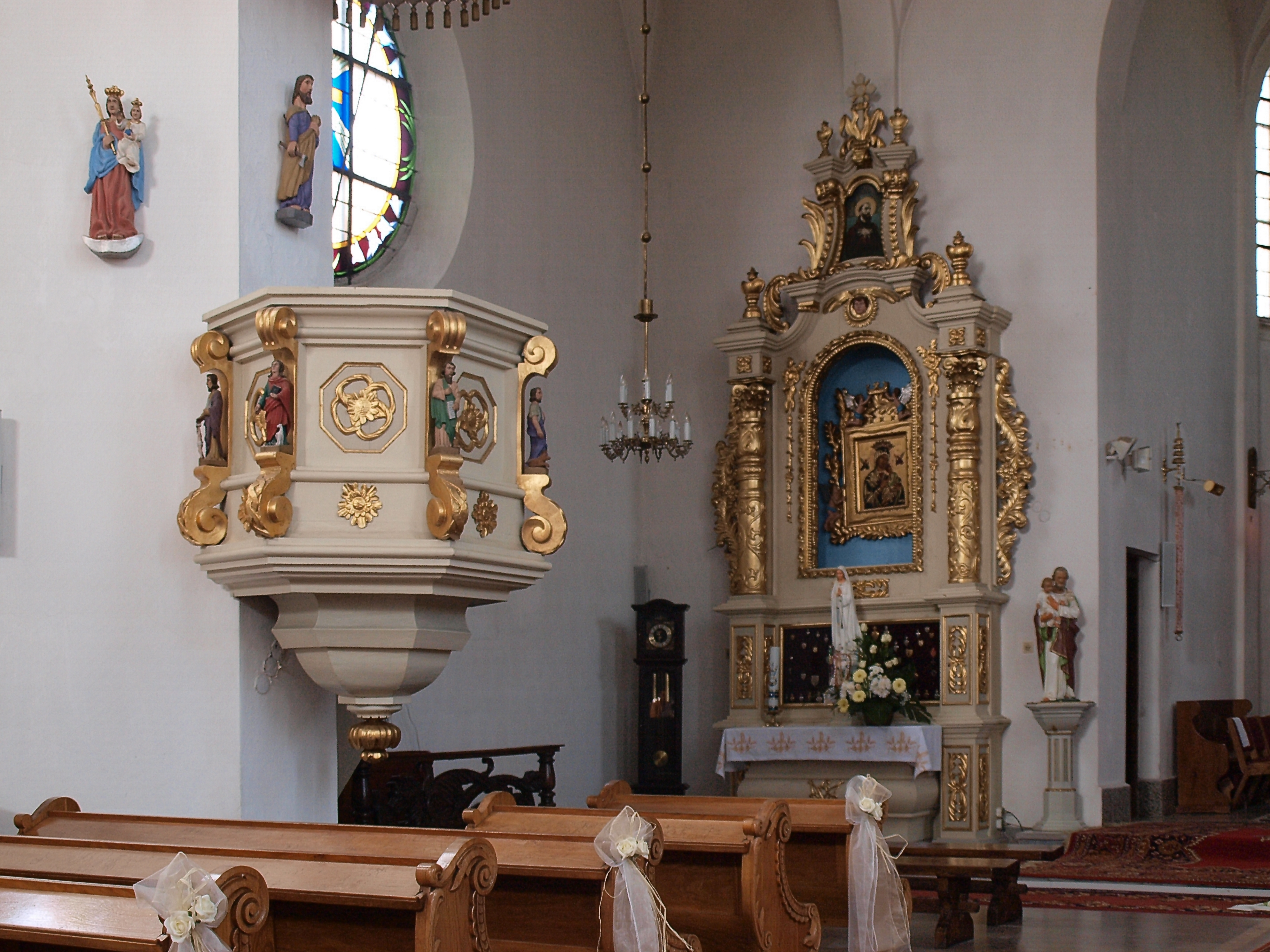 Samocice, parish church of St. Bartholomew left altar